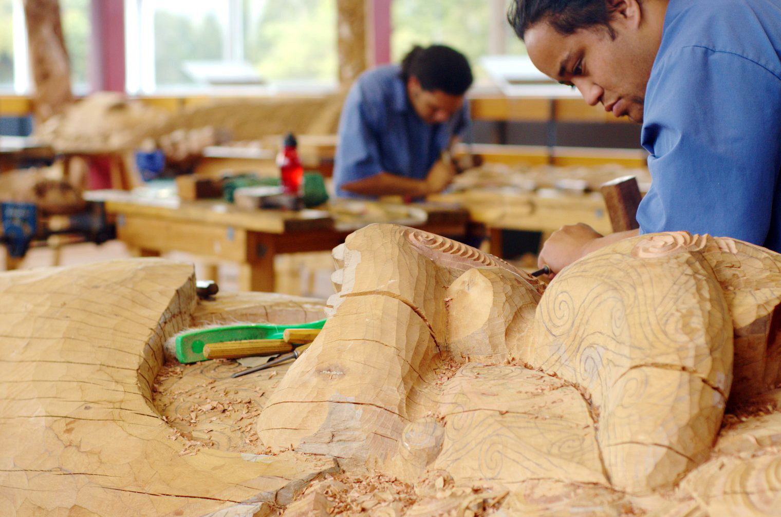 Māori students from The New Zealand Māori Arts & Crafts Institute in Rotorua making traditional Māori styled wood carvings.